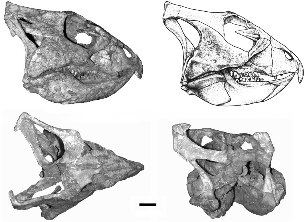 Archaeoceratops oshimai, IVPP V 11114, holotype in right lateral (A–D), dorsal (E), and caudal (F) views of the skull.